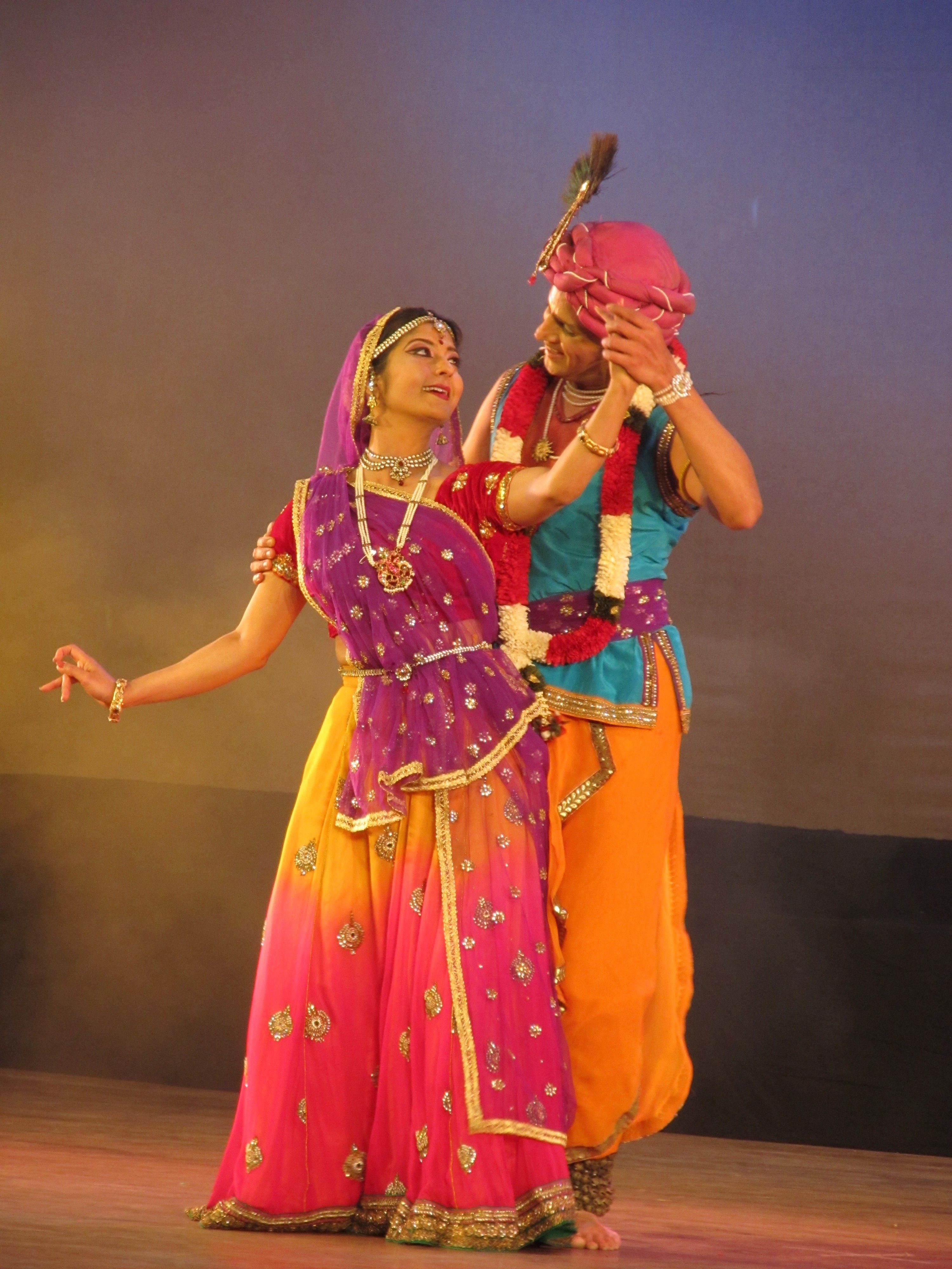 This Picture was taken at Chowdiah Memorial Bangalore during Nirupama Rajendra OJAS Performance.